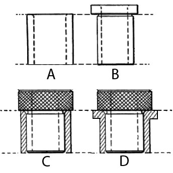 Various jig bushings. Key: A. Headless wearing press-fit bushing B. Head wearing press-fit bushing C. Headless liner bushing with renewable bushing D. Head liner bushing with renewable bushing. (This is a modified version of the original image.)